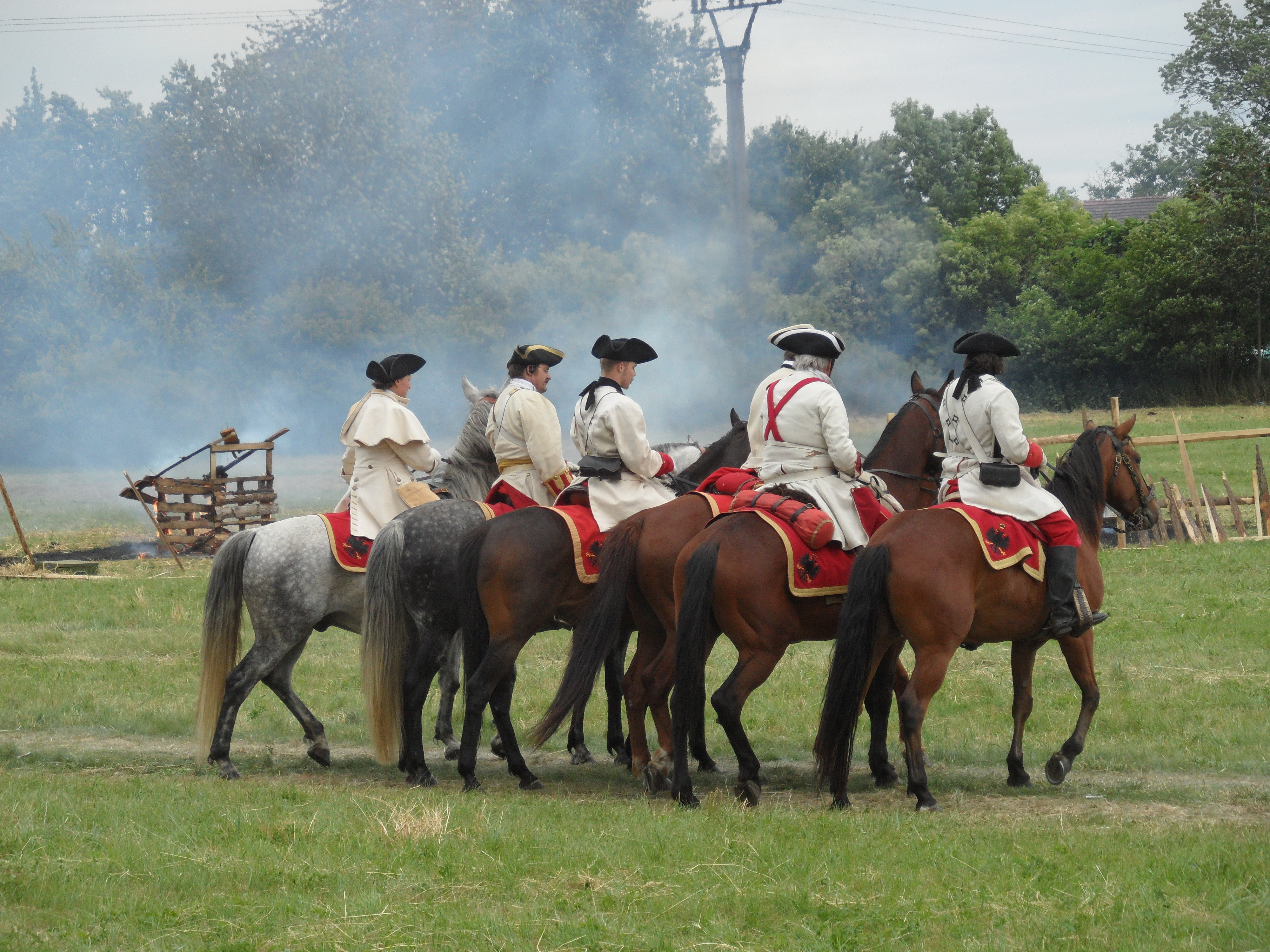 Křečhoř: Closing Ceremony – Final Parade (260th Anniversary of Battle of Kolín). Kolín District, the Czech Republic.